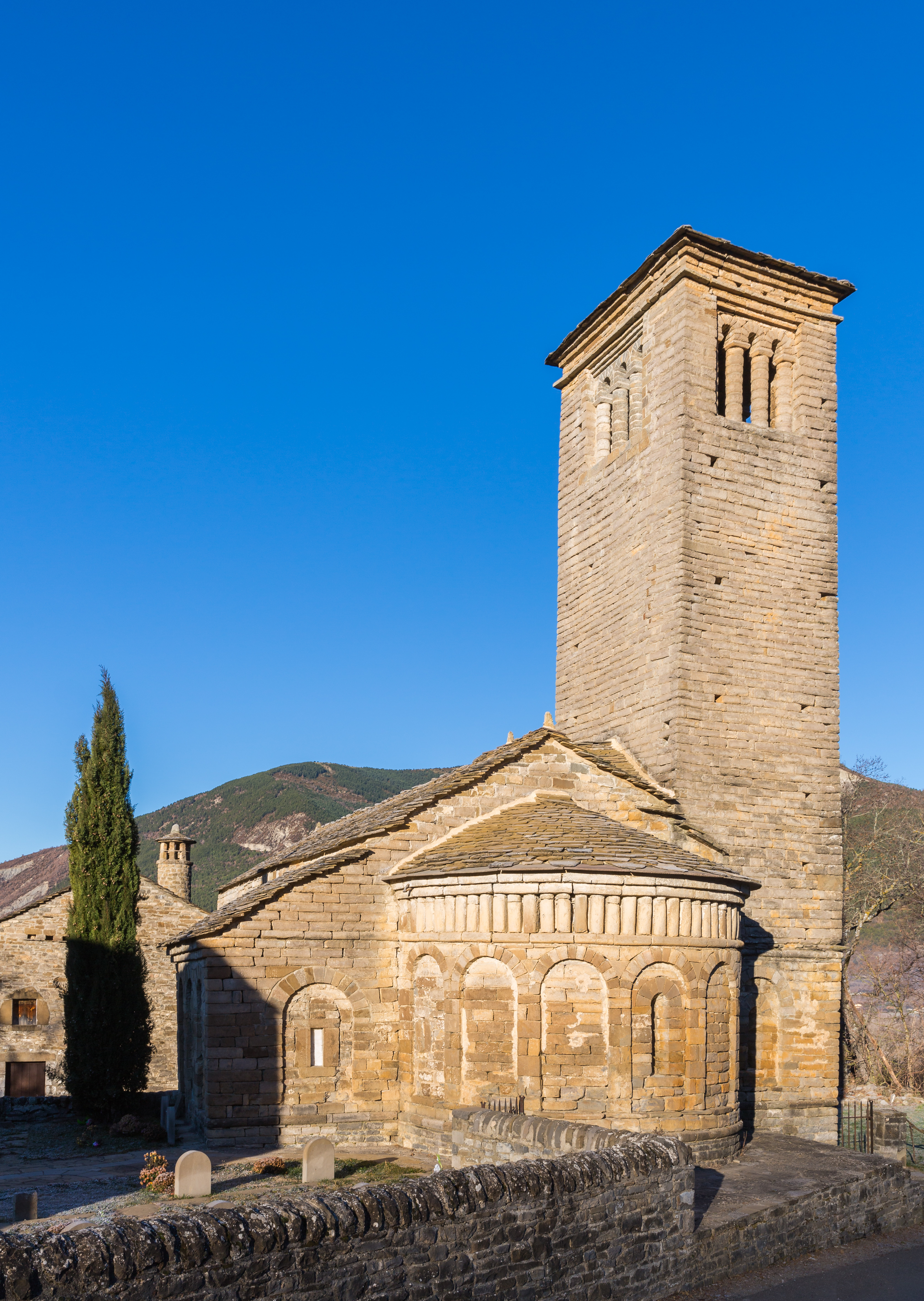 St Peter's church, Lárrede, Huesca, Spain